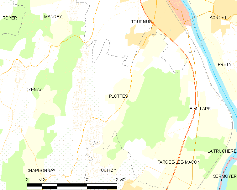 Map of French municipality